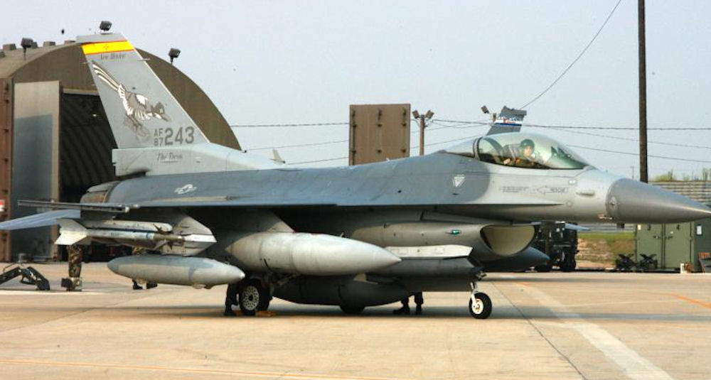 An F-16 from the New Mexico Air National Guard's 150th Fighter Wing, commonly referred to as "The Tacos," prepares to beddown recently after deploying to Kunsan Air Base as part of the unit's Air Expeditionary Force rotation. The 150th FW integrated with the 140th and 120th FWs, each from the Colorado and Montana ANGs respectively, to become the 186th Expeditionary Fighter Squadron. [USAF photo by Staff Sgt. Becky Nelson]